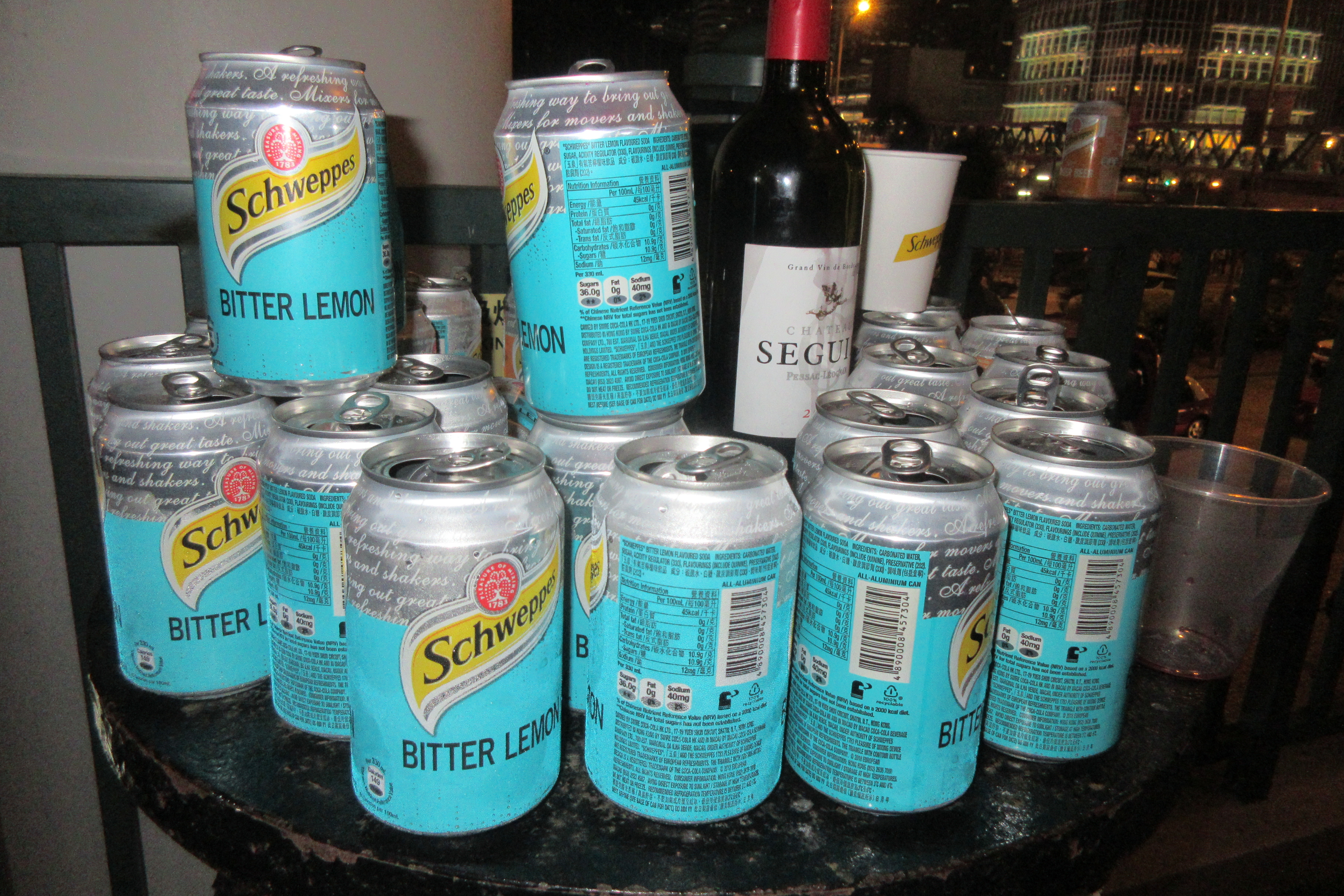 HK 中環 Central night 香港美酒佳餚巡禮 Hong Kong Wine and Dine Festival in October 2018